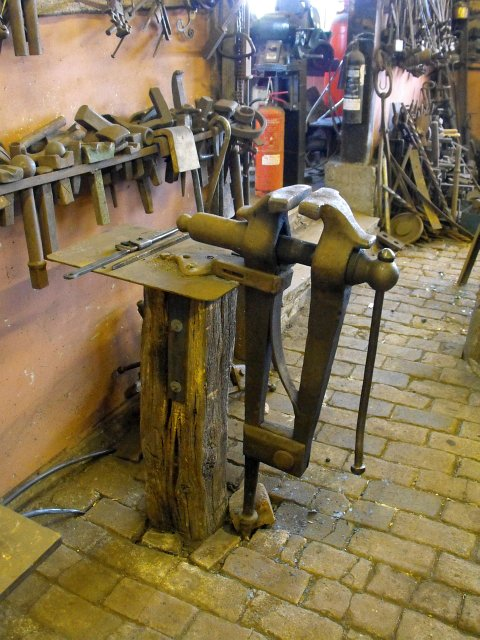 Leg vice. In the blacksmith's shop at The Wharf, Berriew 1482064. All my photos of this building